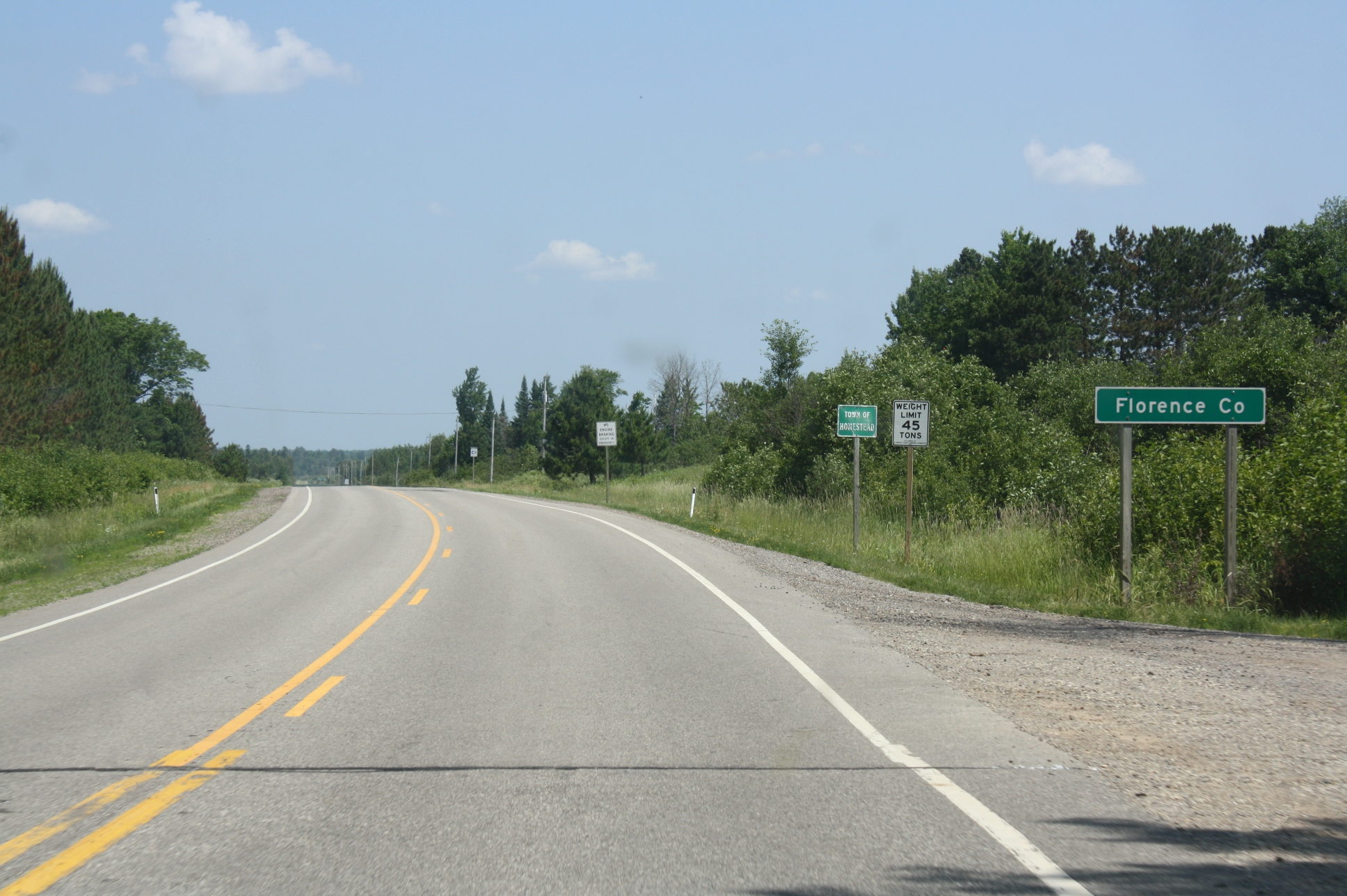 The sign for Florence County, Wisconsin in the town of Homestead.